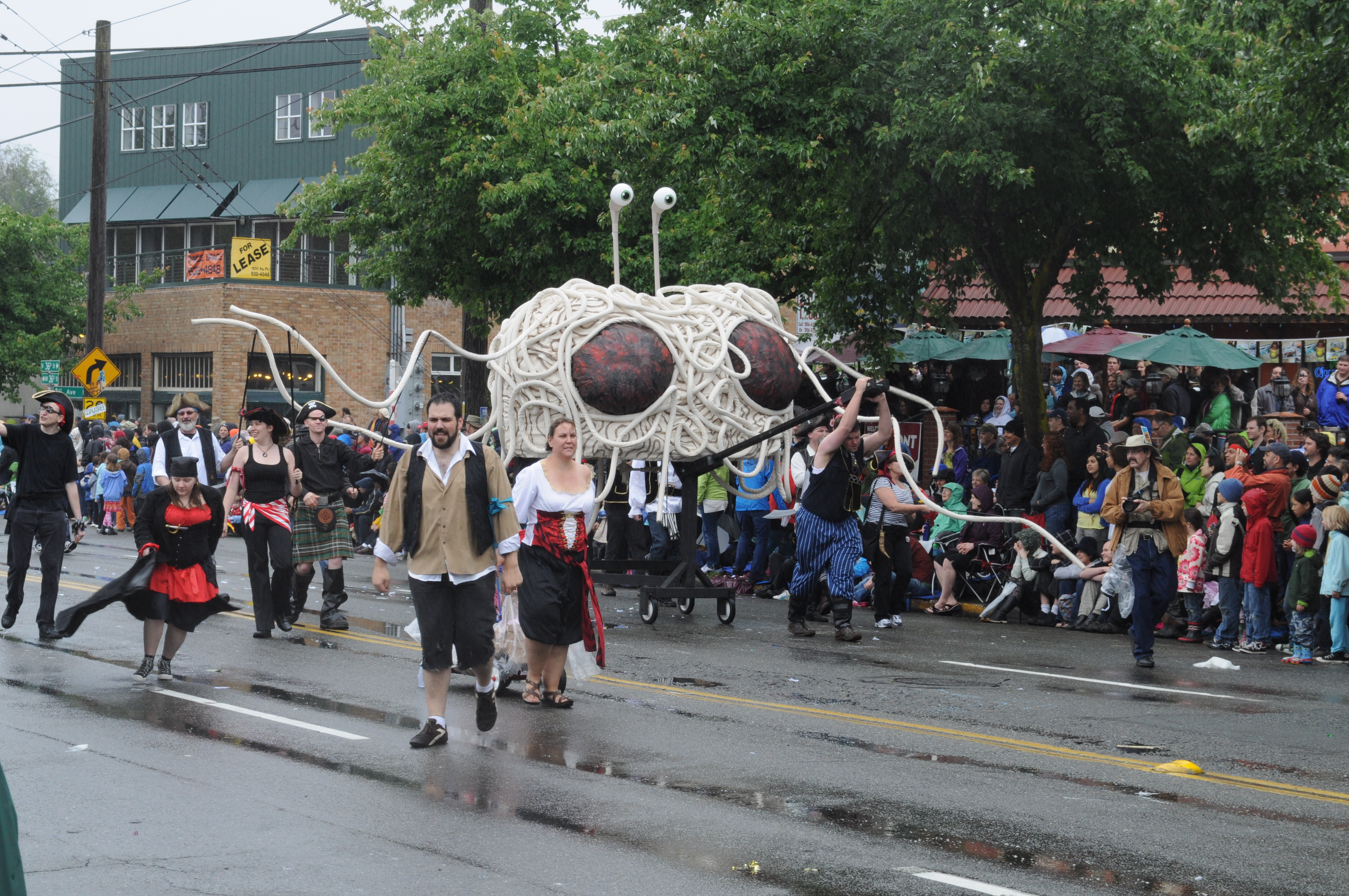 Fremont Solstice Parade 2011, Seattle, Washington, USA.